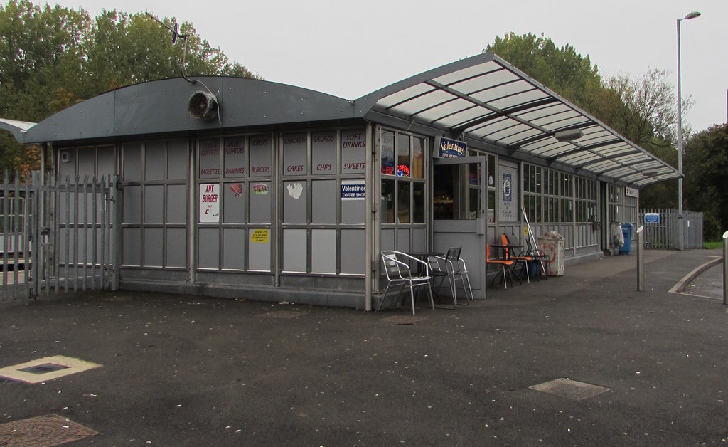 Valentine's in Cwmbran railway station